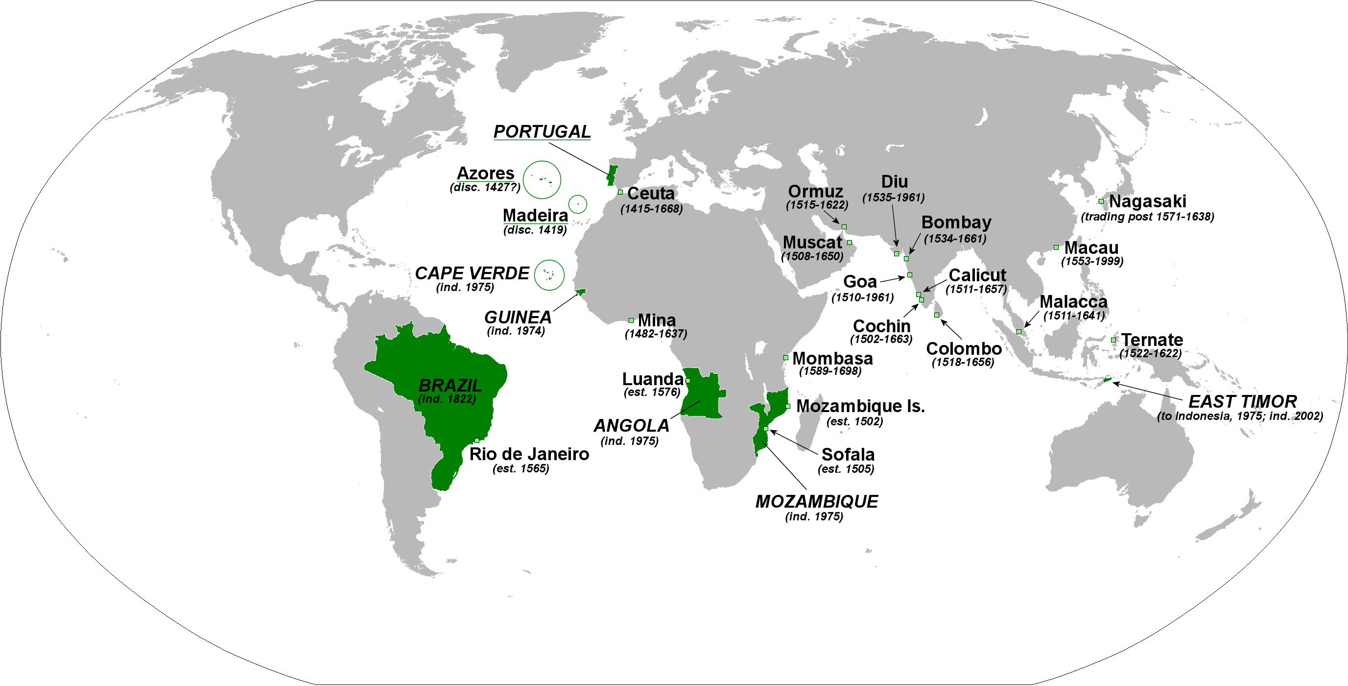 The principal forts, trading posts and colonies of the Portuguese Empire (1415-1999). Abbreviations: disc: date of discovery est: date of establishment ind: date of independence Present-day Portuguese territory is underlined in green.